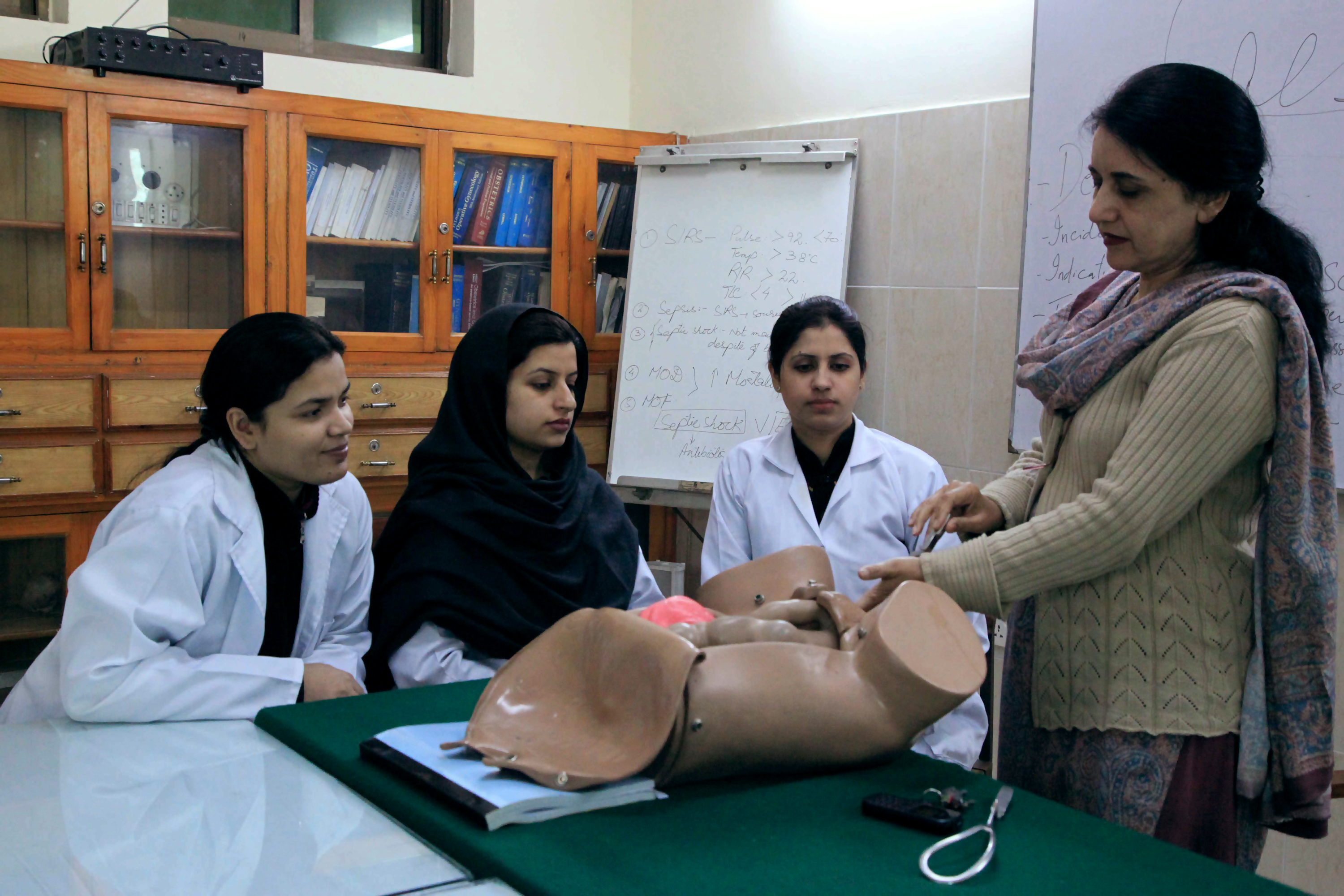 Demonstration assisted delivery on a model